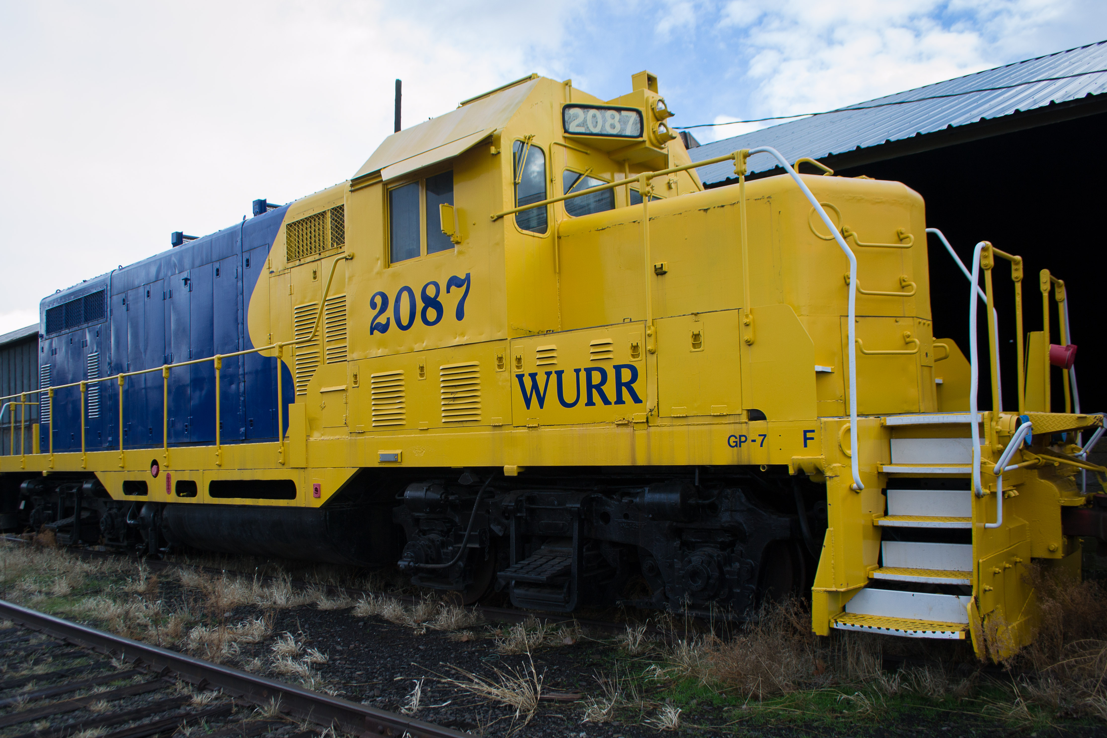 The WURR line is about 66 miles of track between Elgin and Wallowa, Oregon.